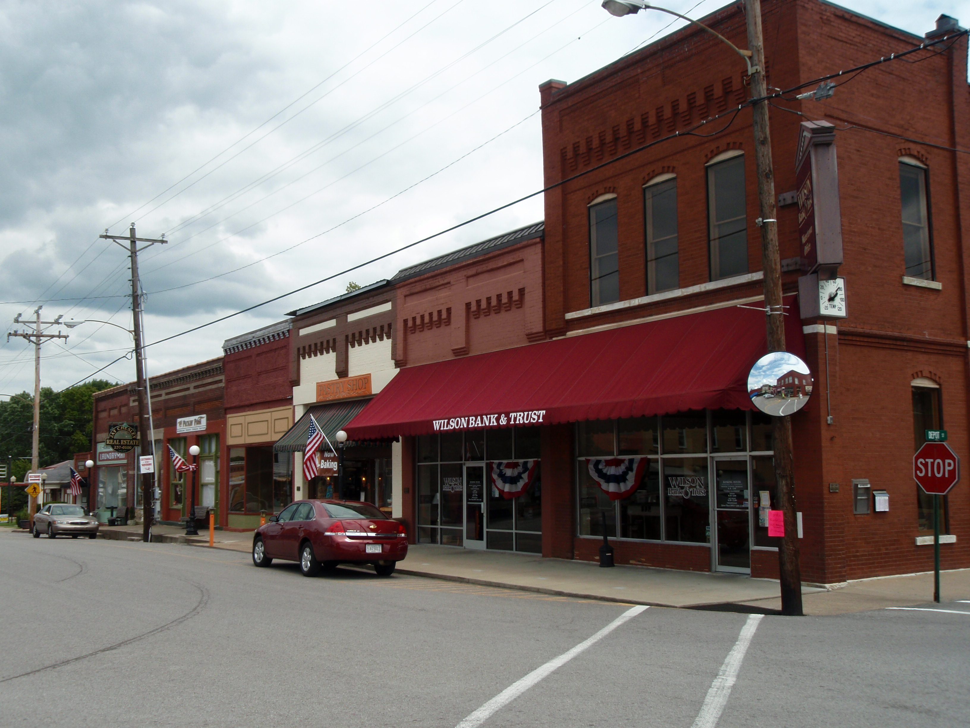 Downtown Watertown, Tennessee